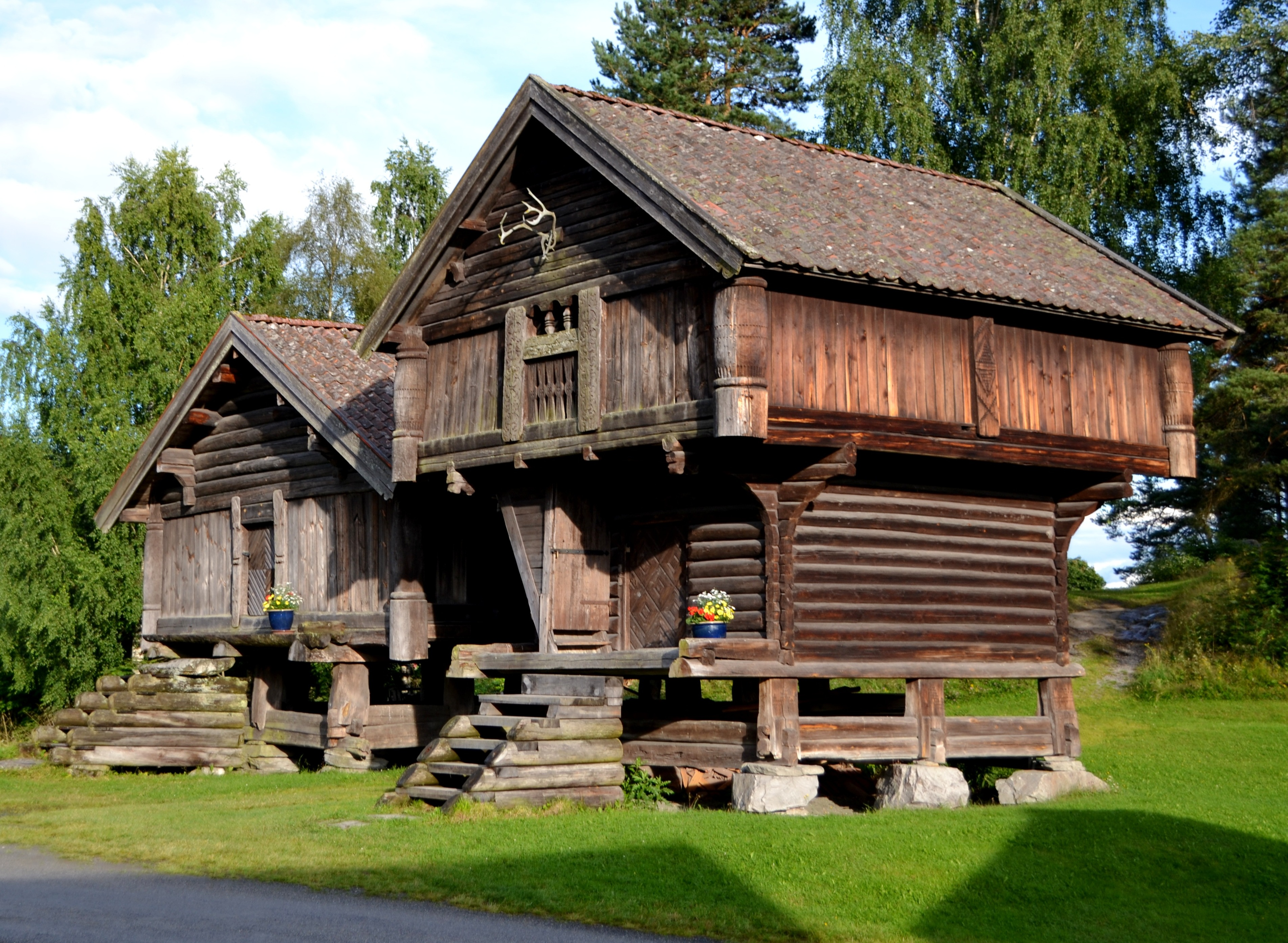 Vengebur fra Nord-Sem and loft from Graver-Tveiten at Heddal Bygdetun.